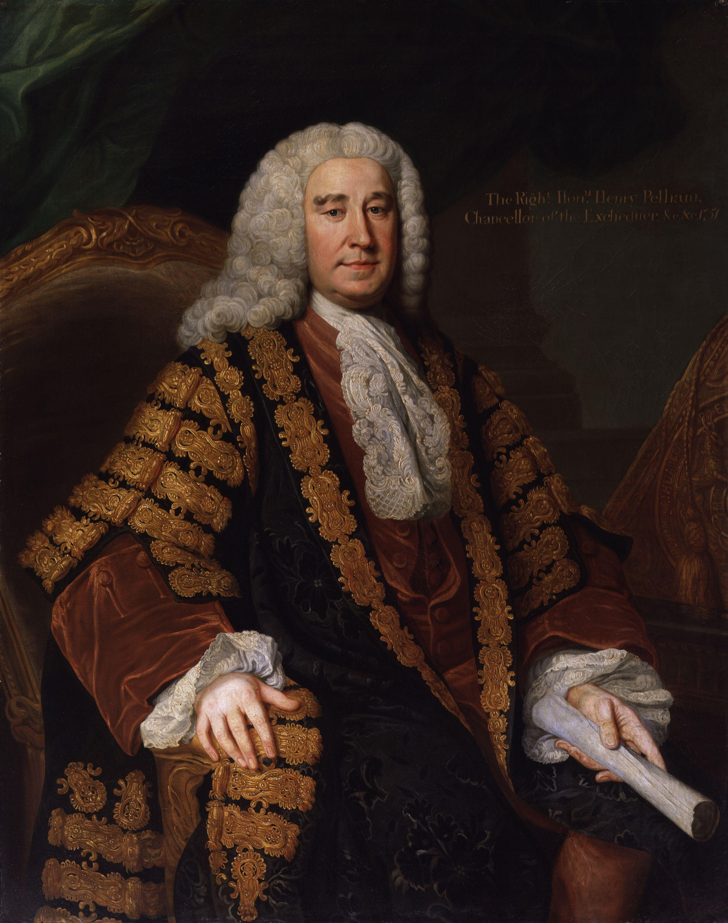 Given to the National Portrait Gallery, London in 1866. All images in this batch have been confirmed as author died before 1939 according to the official death date listed by the NPG.